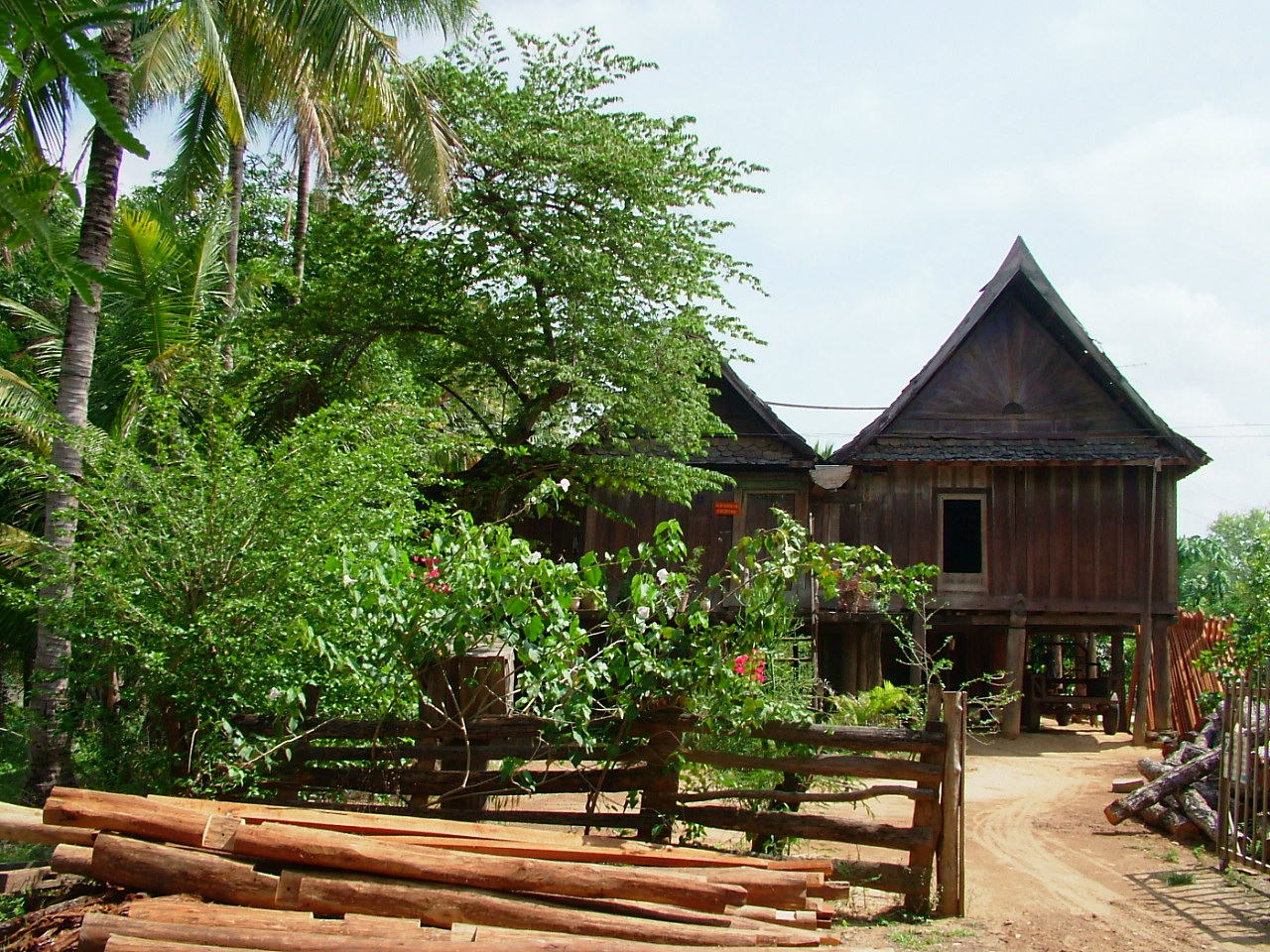 An old stilt house by Lao people in Ban Don, Buon Don, Dak Lak, Vietnam